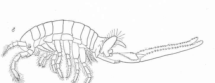 Boring Amphipod, Chelura terebrans, Phillipi Subject: Gammaridae, Chelura Tag: Shellfish